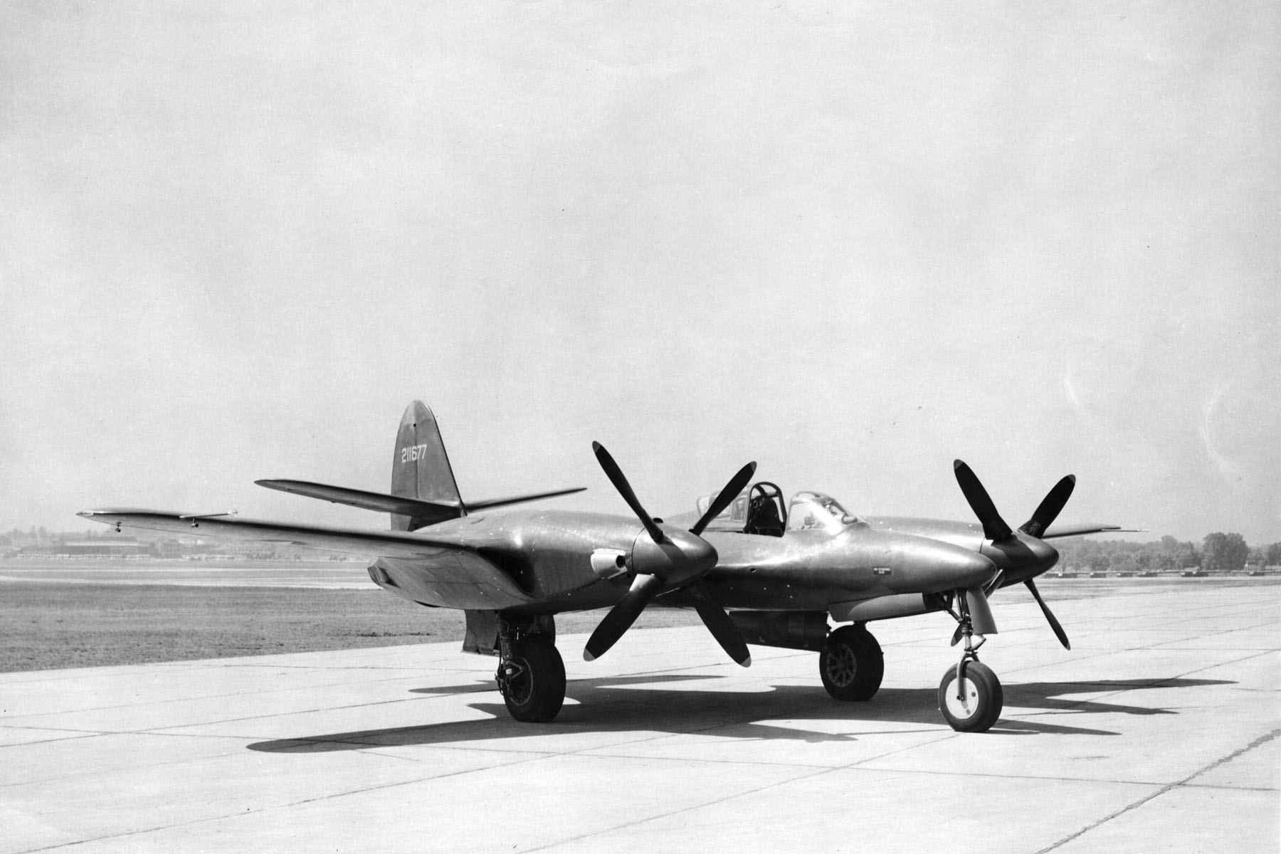 The experimental U.S. Army Air Forces McDonnell XP-67 Bat (s/n 42-11677). This aircraft was damaged beyond repair by a midair fire in September 1944.